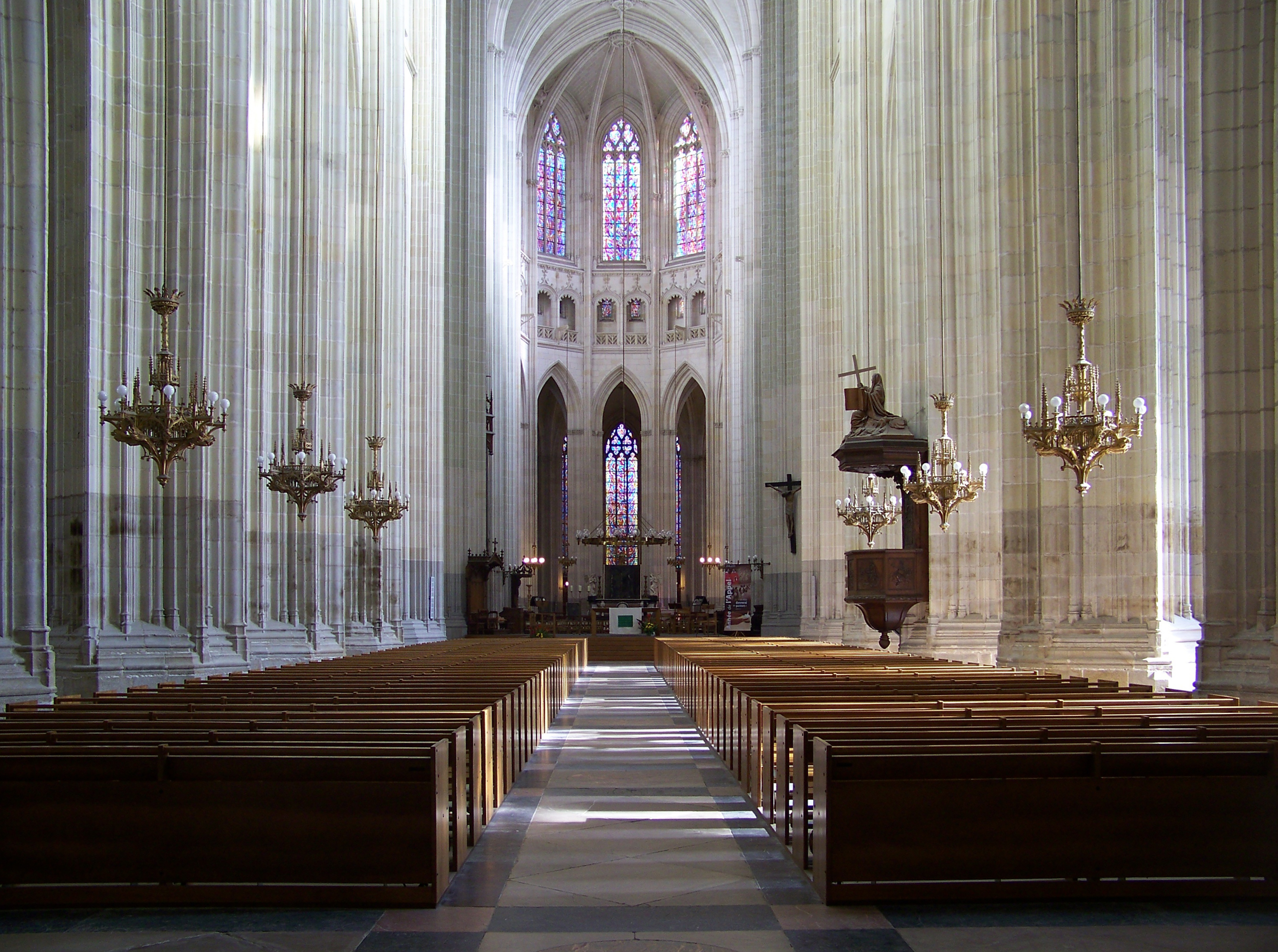 Nave of the cathédrale Saint-Pierre et Saint-Paul in Nantes.